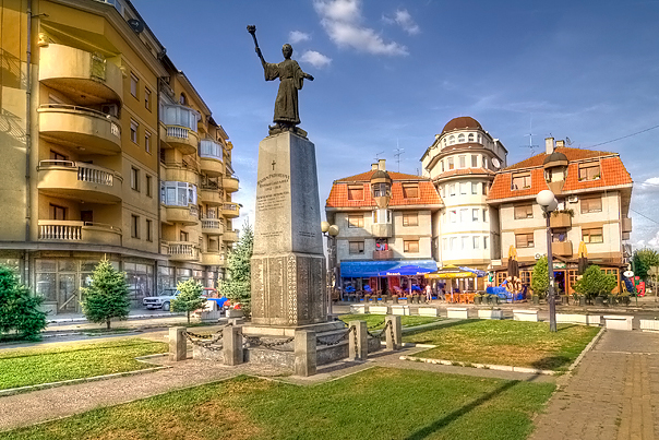 Mare Resavkinje, Svilajnac (Serbia)